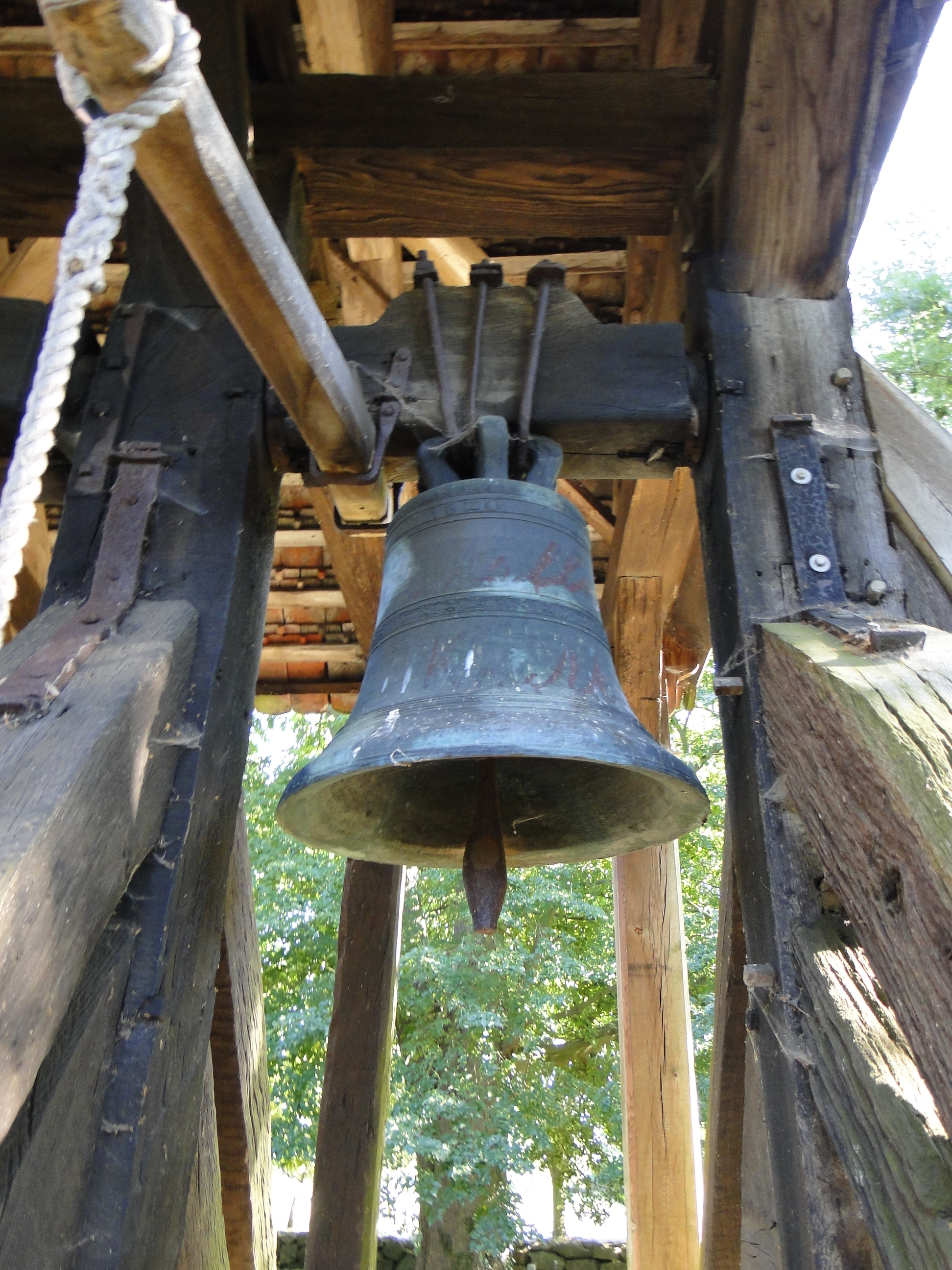 Church bell at church in Mölln, district Demmin, Mecklenburg-Vorpommern, Germany